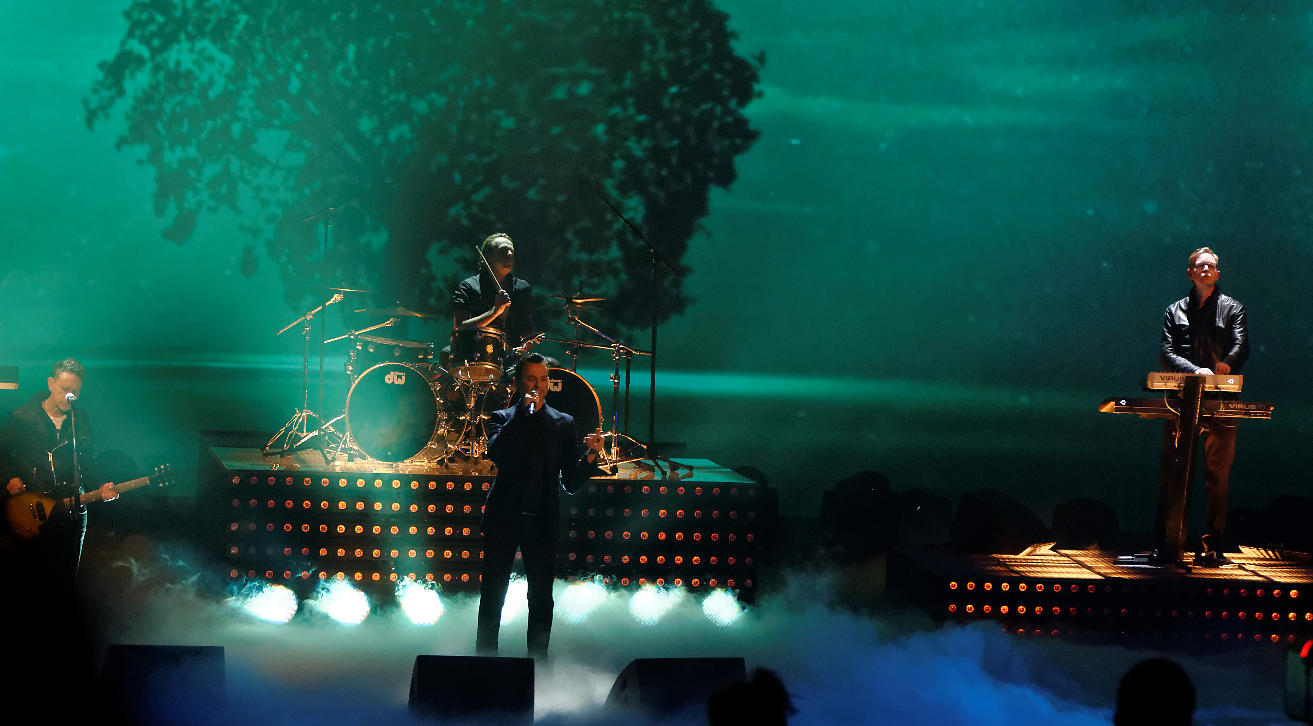 Wetten, dass.. ? am 23. März 2013 in der Stadthalle Wien The making of this document was supported by Wikimedia Austria. Depeche Mode